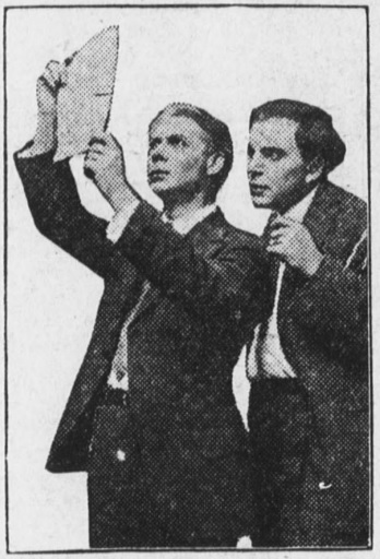 Original caption: "Letters Began to Form on the Blank Sheet"